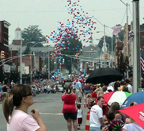 4th of July Parade beginning with launching or red, white, and blue ballons from downtown Elizabethton, Tennessee.